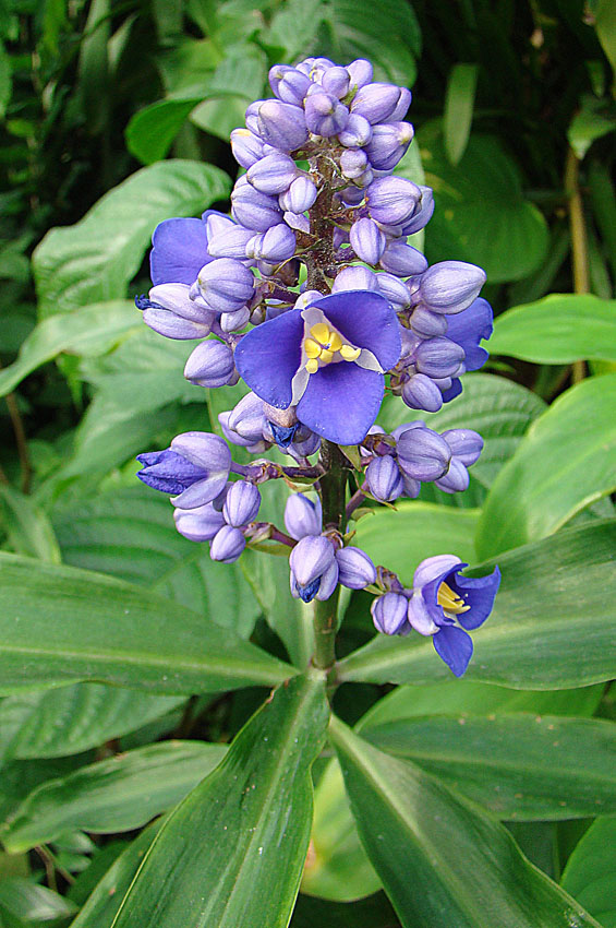 Also known as Blue Ginger. Neotropical in origin but usually met in gardens, in this case KEW Gardens, London. In context at